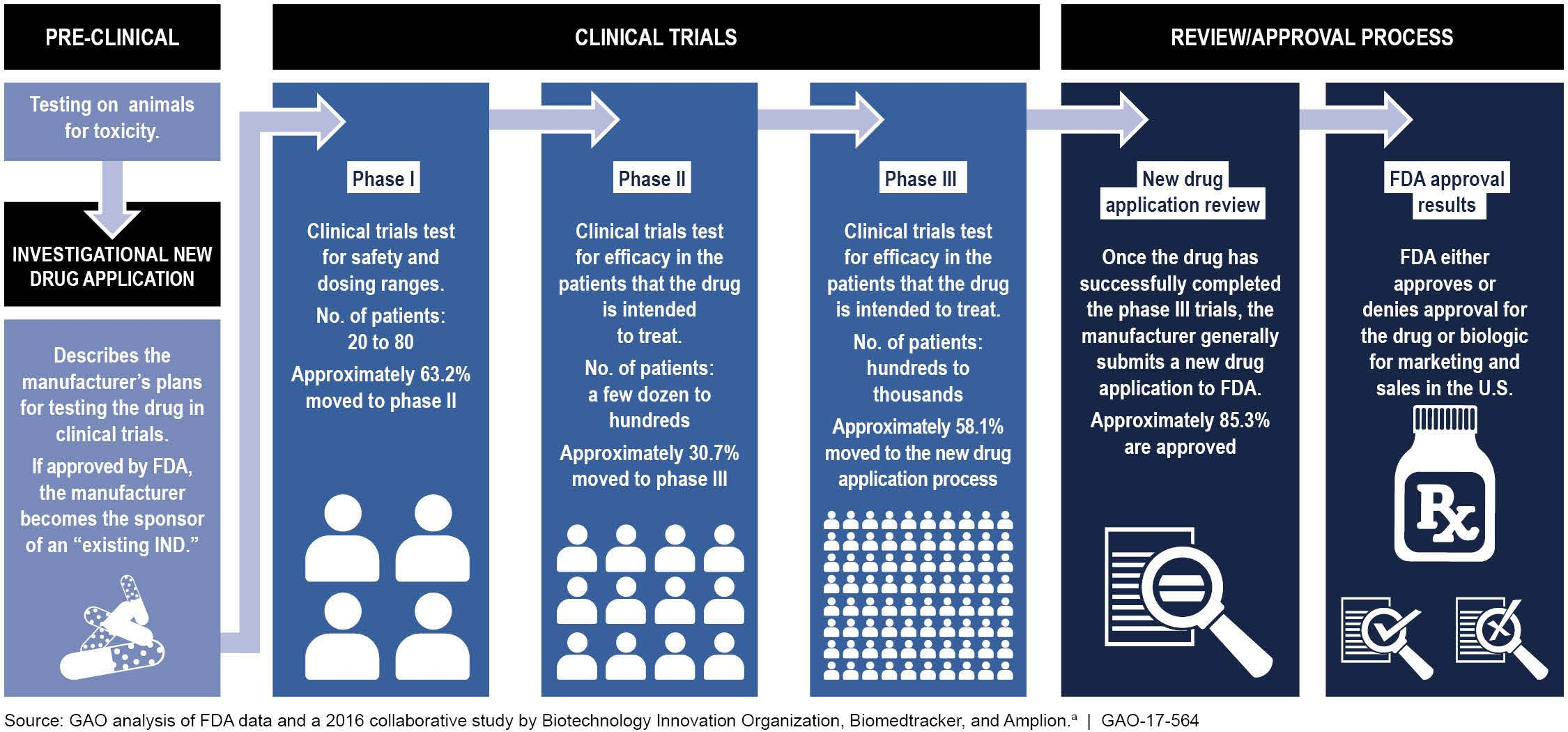 This image is excerpted from a U.S. GAO report: INVESTIGATIONAL NEW DRUGS: FDA Has Taken Steps to Improve the Expanded Access Program but Should Further Clarify How Adverse Events Data Are Used Note: According to FDA officials, there can be wide variation in the number of patients involved in the different clinical trial phases, and, when a new drug is being tested for a life-threatening ailment, the drug development process may be expedited by going through only one or two phases of clinical trials before an application is submitted to FDA for marketing approval. a) David W. Thomas et al., Clinical Development Success Rates 2006-2015 (Washington, D.C.: BIO, 2016).